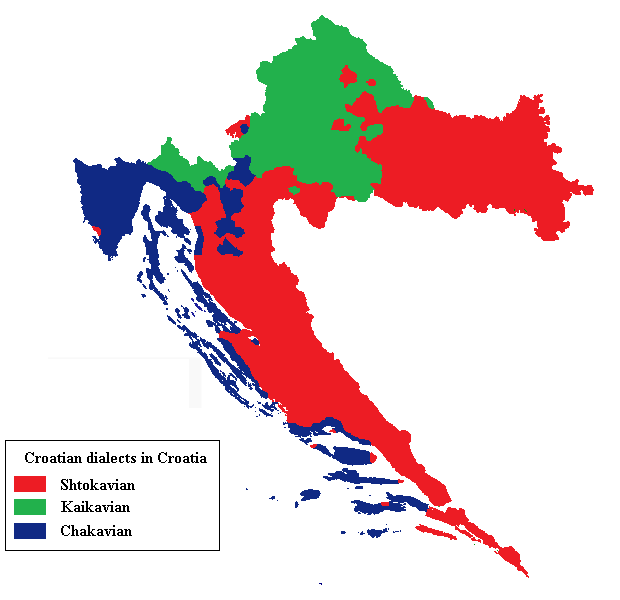 Croatian dialects in Croatia